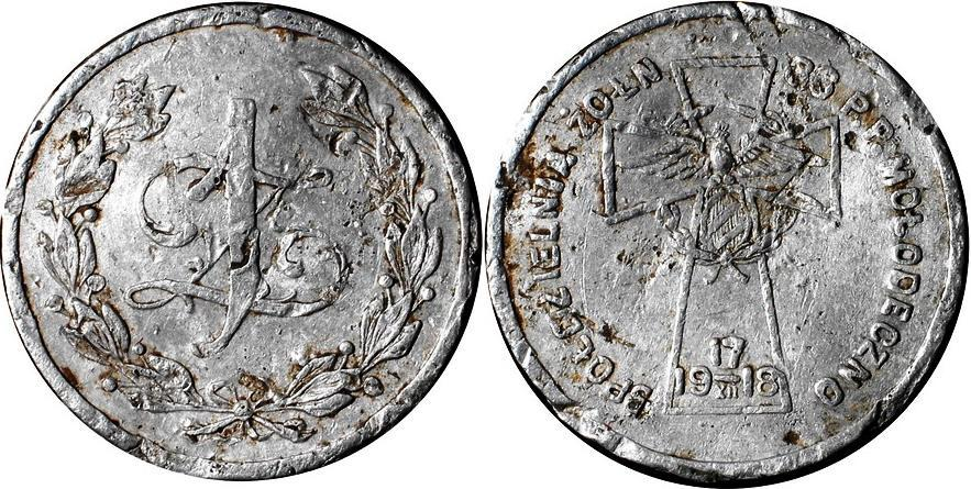 1 zloty, Soldier's cooperative, 86th regiment of infantry in Maladzechna, Belarus